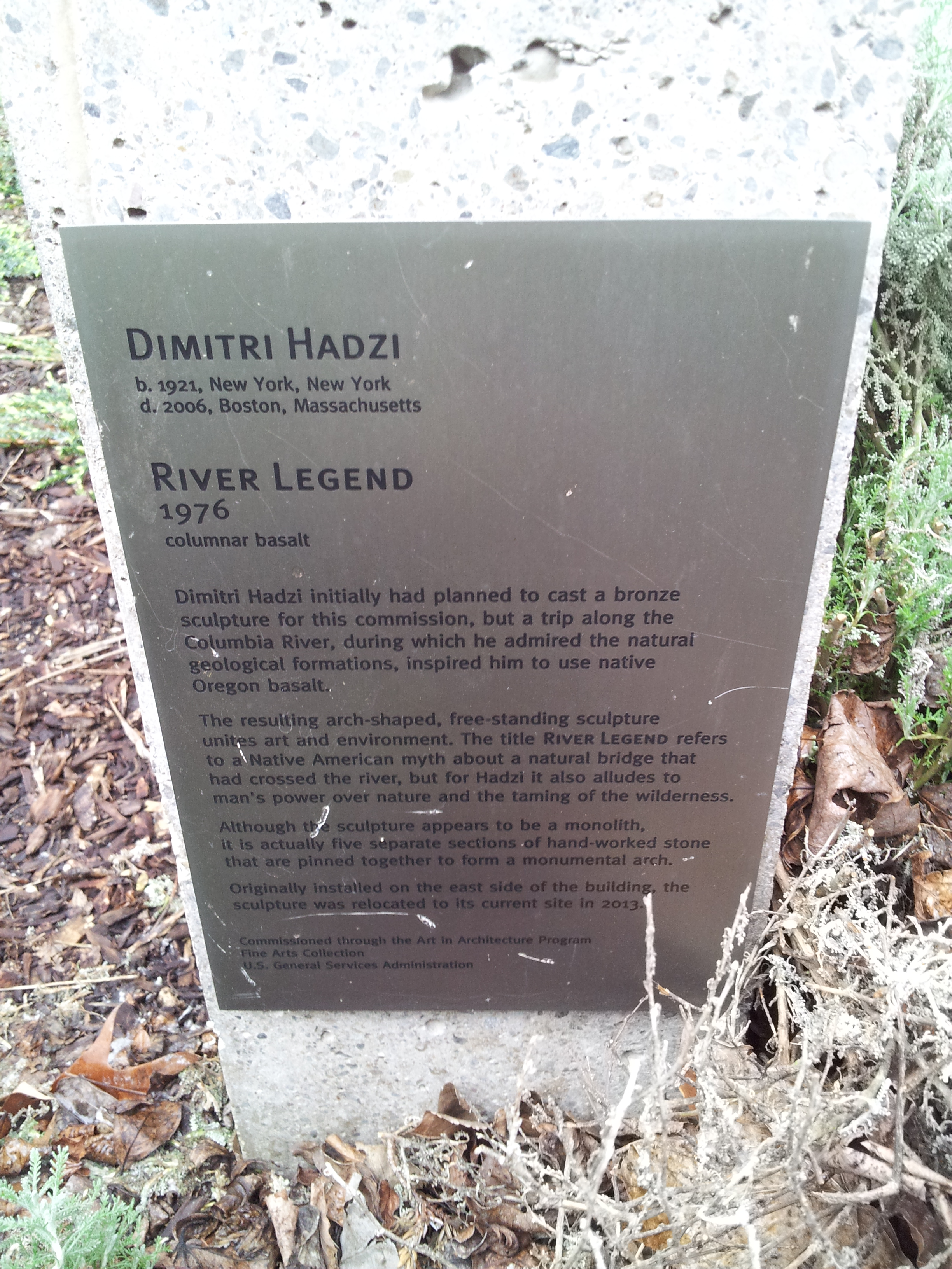 Plaque for River Legend, a sculpture in downtown Portland, Oregon (2015)